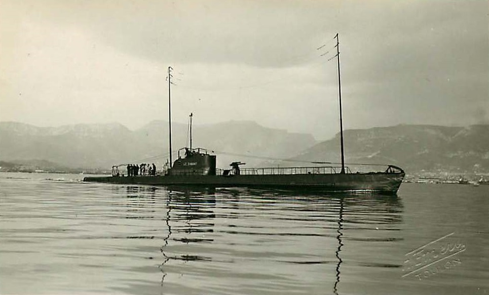 Postcard of Diamant underway